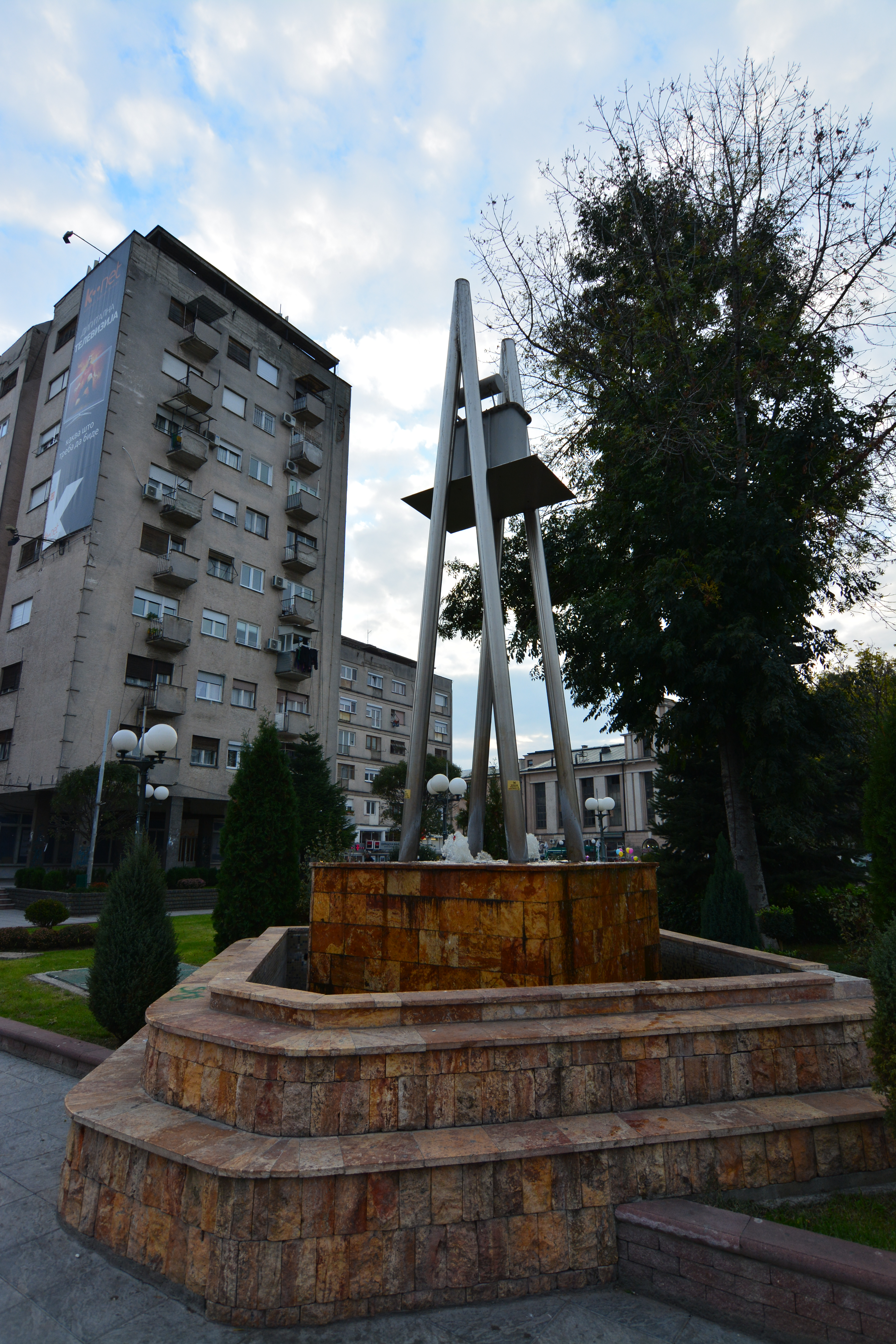 In Kumanovo, "Four Poles"